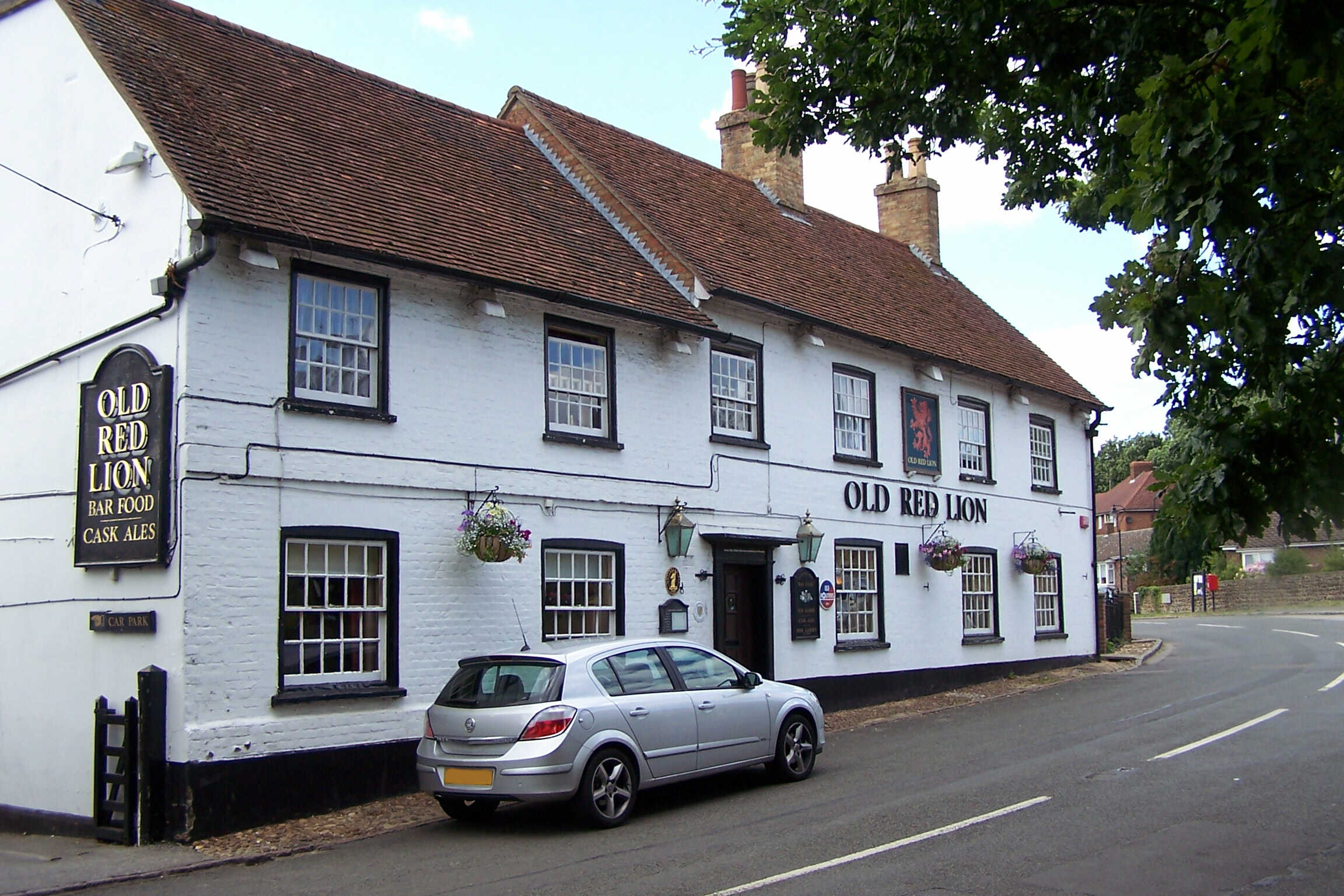 Old Red Lion Pub in Great Brickhill, Milton Keynes.